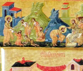 Icon of the Holy Lukas, Svetoslav Avsalom Monastery Moraca 1672-1673 depicting Guslar in its upper middle part